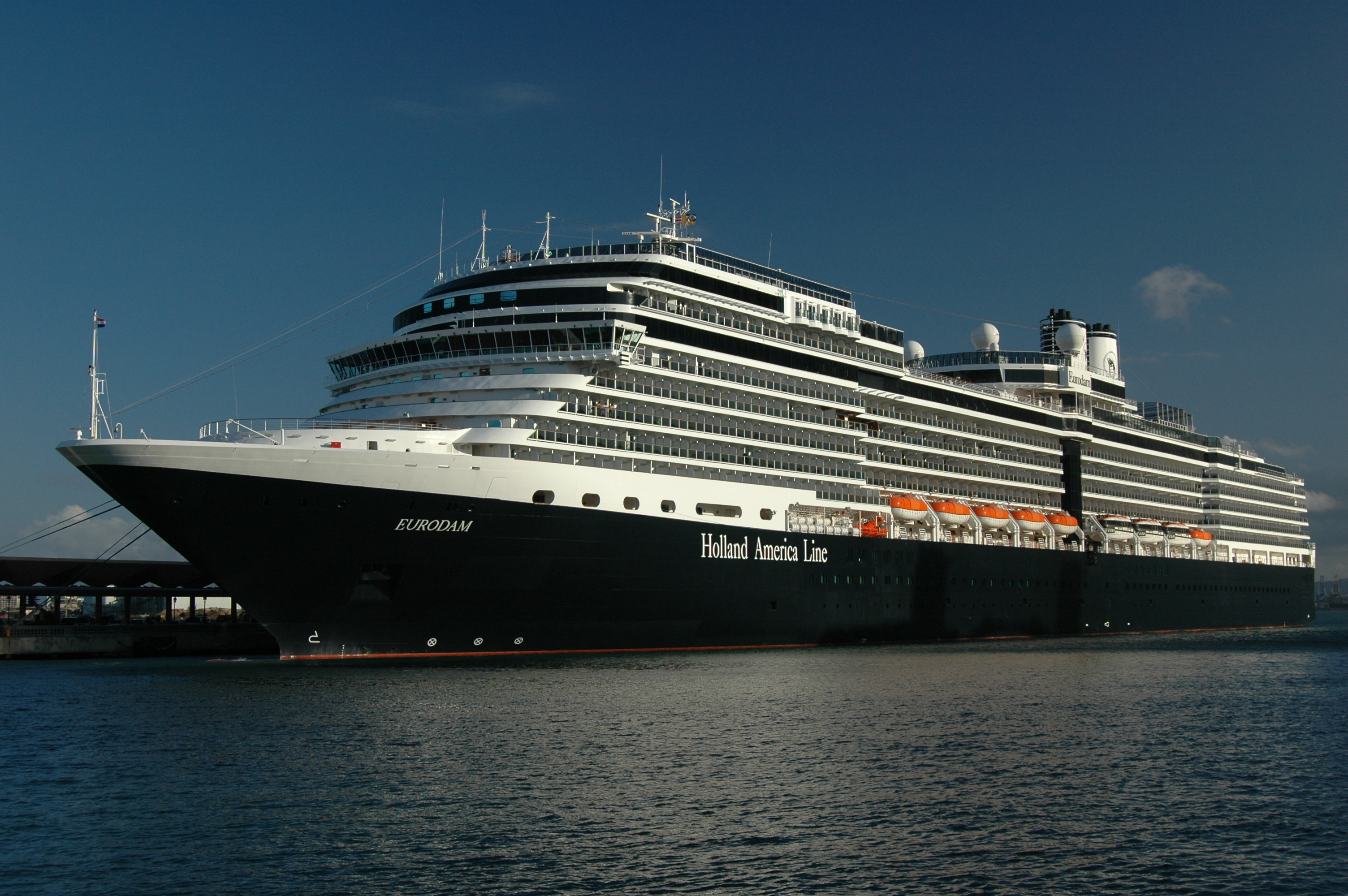 Holland America Line's ms Eurodam alonsidge San Juan, Puerto Rico.